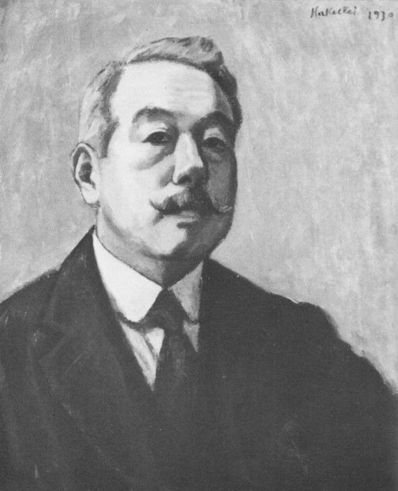 Ishii Hakutei self, 1930